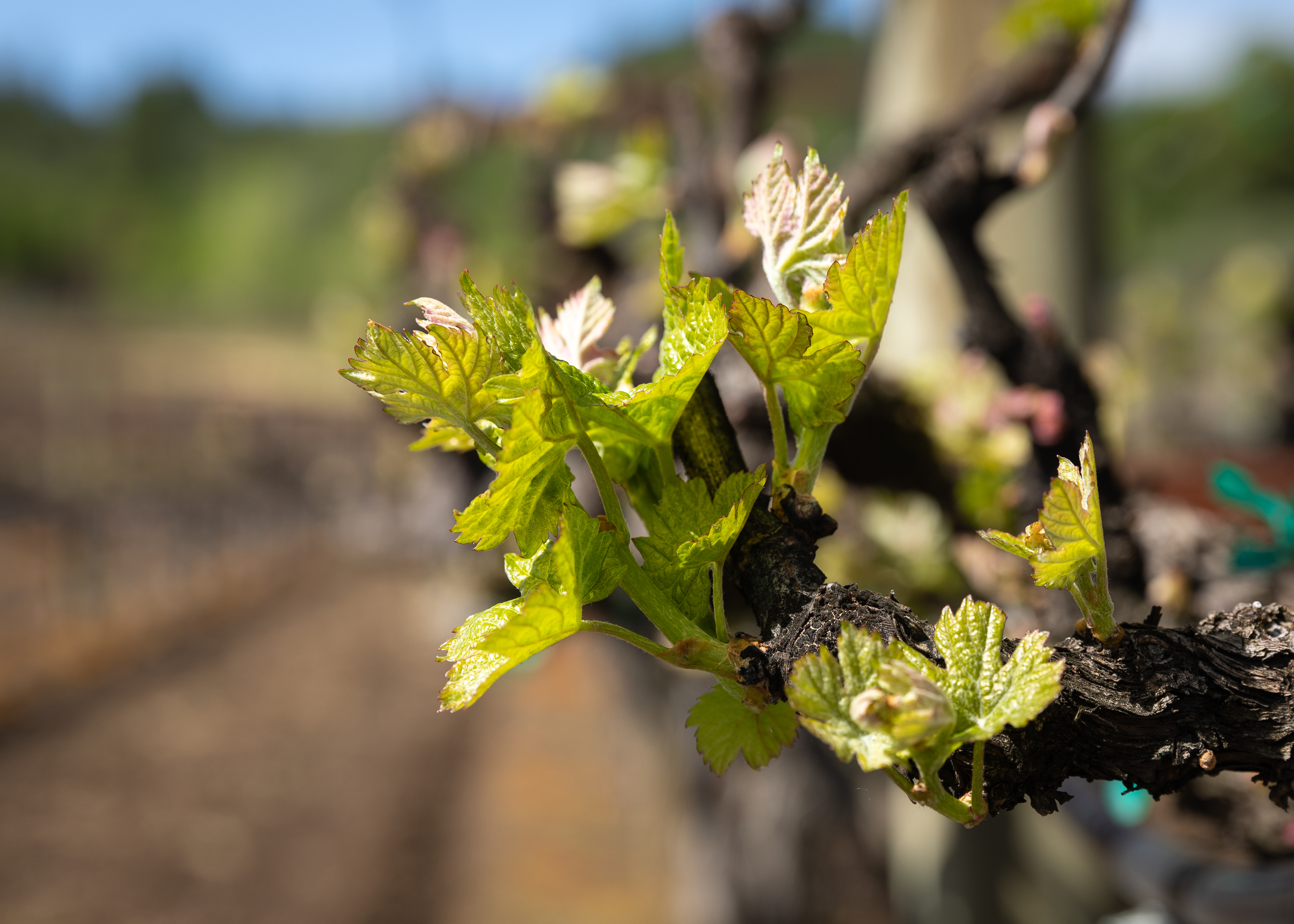 Merlot vine during bud break in spring, Dry Creek Valley, Sonoma County